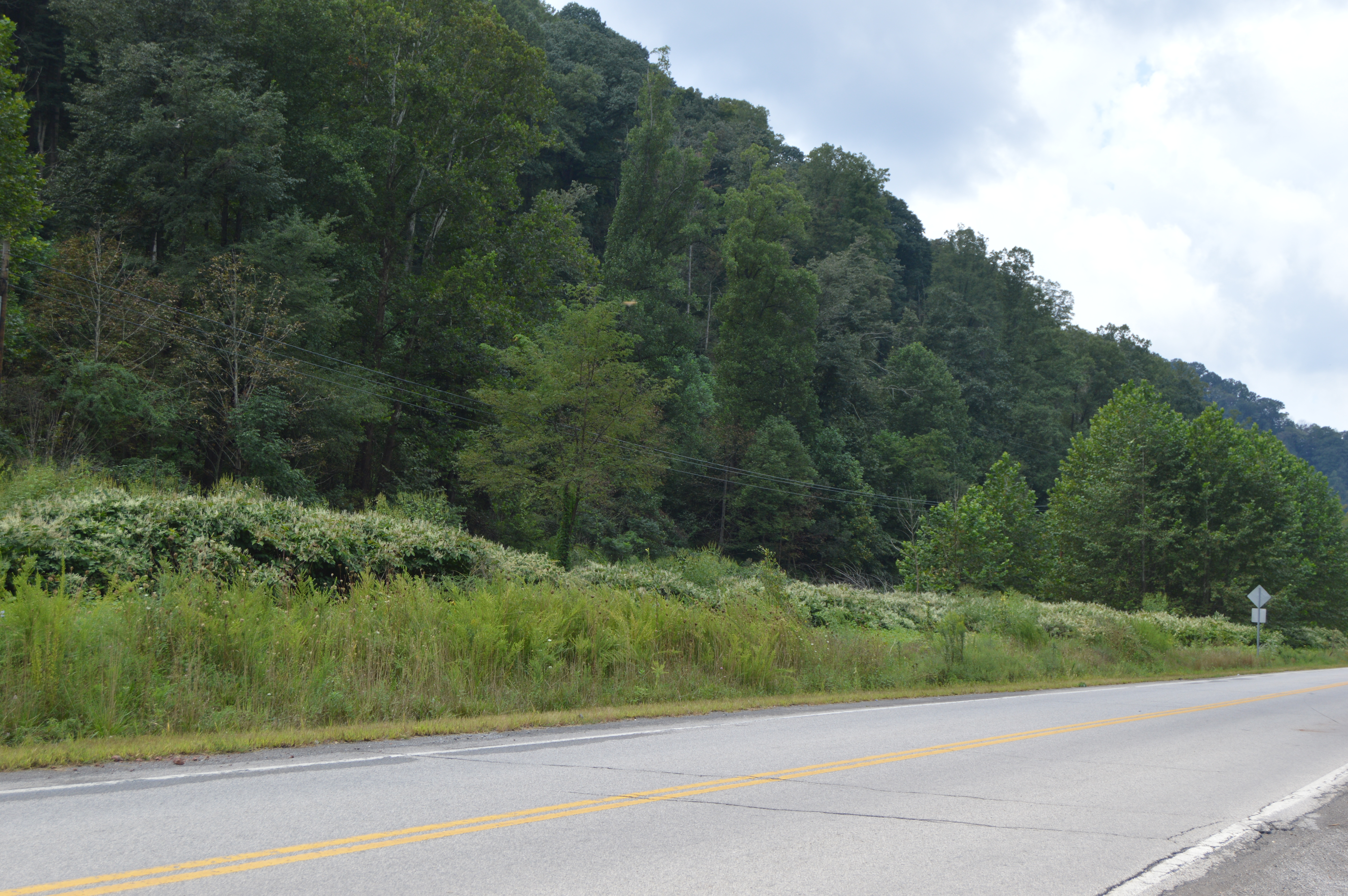 Overview from U.S. Route 52 of the site of the Empire Coal Company Store at Landgraff, West Virginia, United States. Listed on the National Register of Historic Places in 1992, it has not yet been delisted from the Register, despite its destruction.